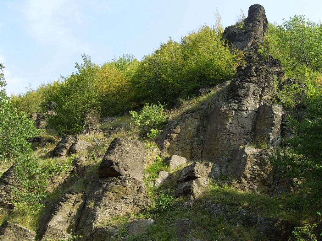 Natural Monument Sivý kameň in Podhradie, Slovakia. Rocks towers of the Krivá skala.